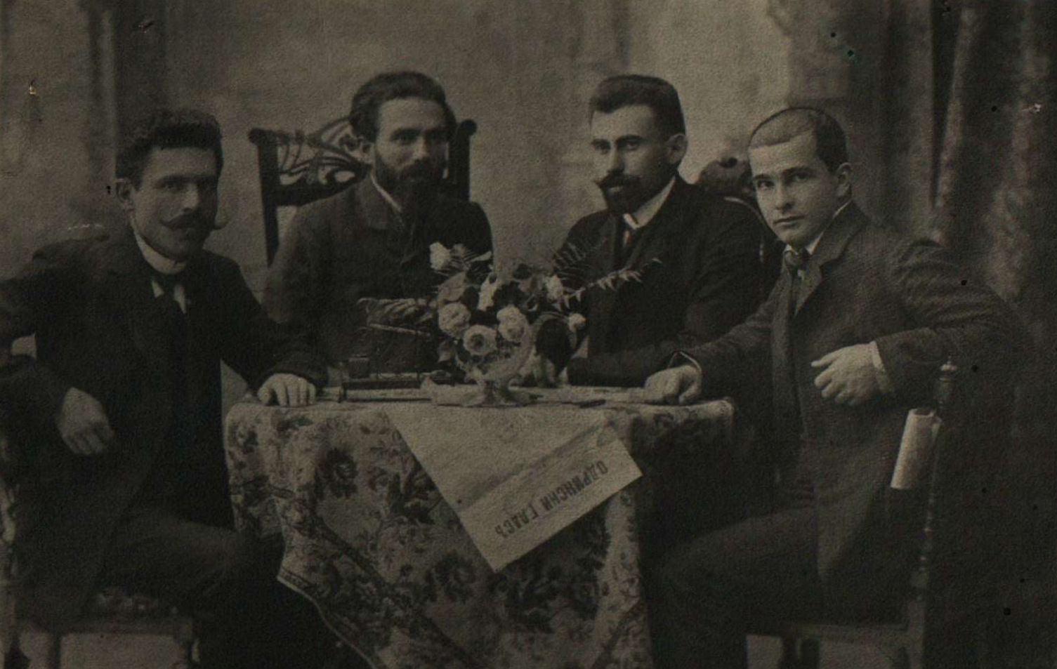 Bulgarian revolutionaries reas "Odrinski Glas".